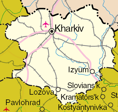 Map of Kharkiv Oblast, Ukraine Adapted from